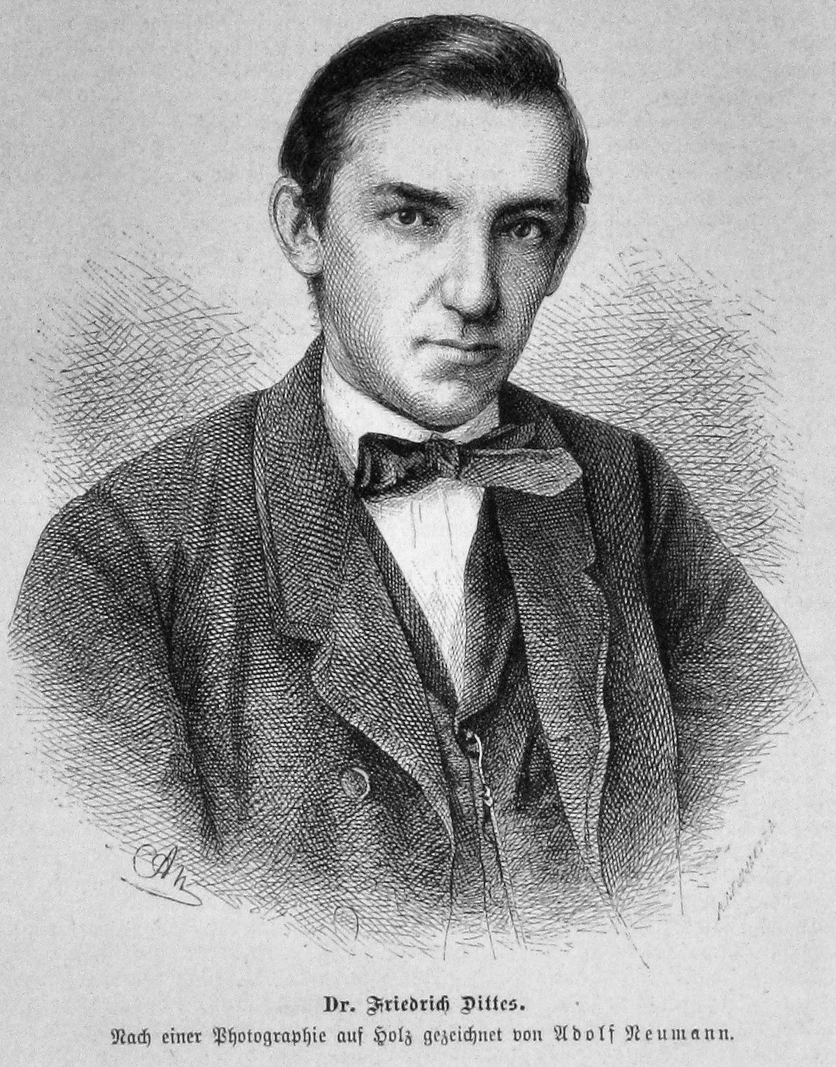 no caption